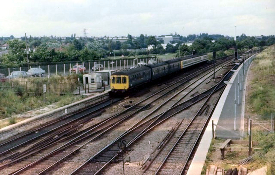 Longbridge Station. Pre-electrification and at the start of cross-city line services, many of the stations to south of New Street were not even built. Remember Five Ways, University and Longbridge were all new stations (through Five Ways was a rebuild). Looking at north platform from road, Longbridge station began services without any buildings. Longbridge was also the southern termination of the service at the time, extension to Redditch did not come until later. A 'siding' further south was used to hold trains awaiting next service north, so as not to block routes in either direction - there were other express services that did not always use the middle tracks. Notice the double set of DMUs awaiting to depart from north platform - sets were often of mixed origin, and due to poor maintenance and age, often 'failed' at inconvenient points on the route, particularly approaching New Street, and would often require railway staff to 'uncouple' manually failed sections. Ahhhh, passengers had much more fun in those days.....